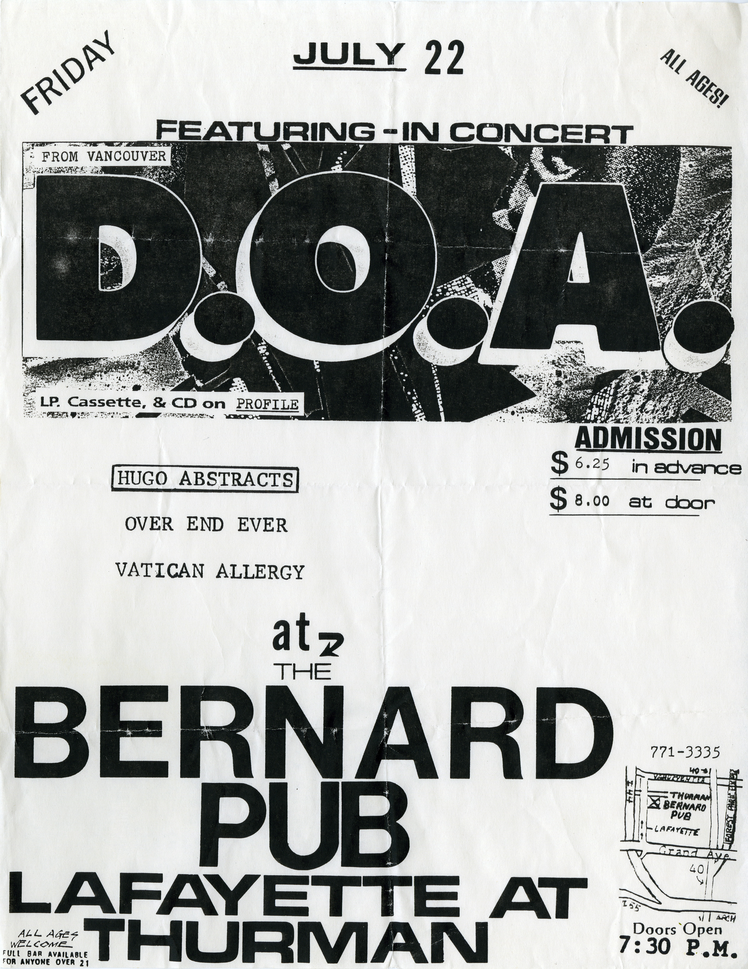 Playbill for a DOA concert, 22 July 1988.